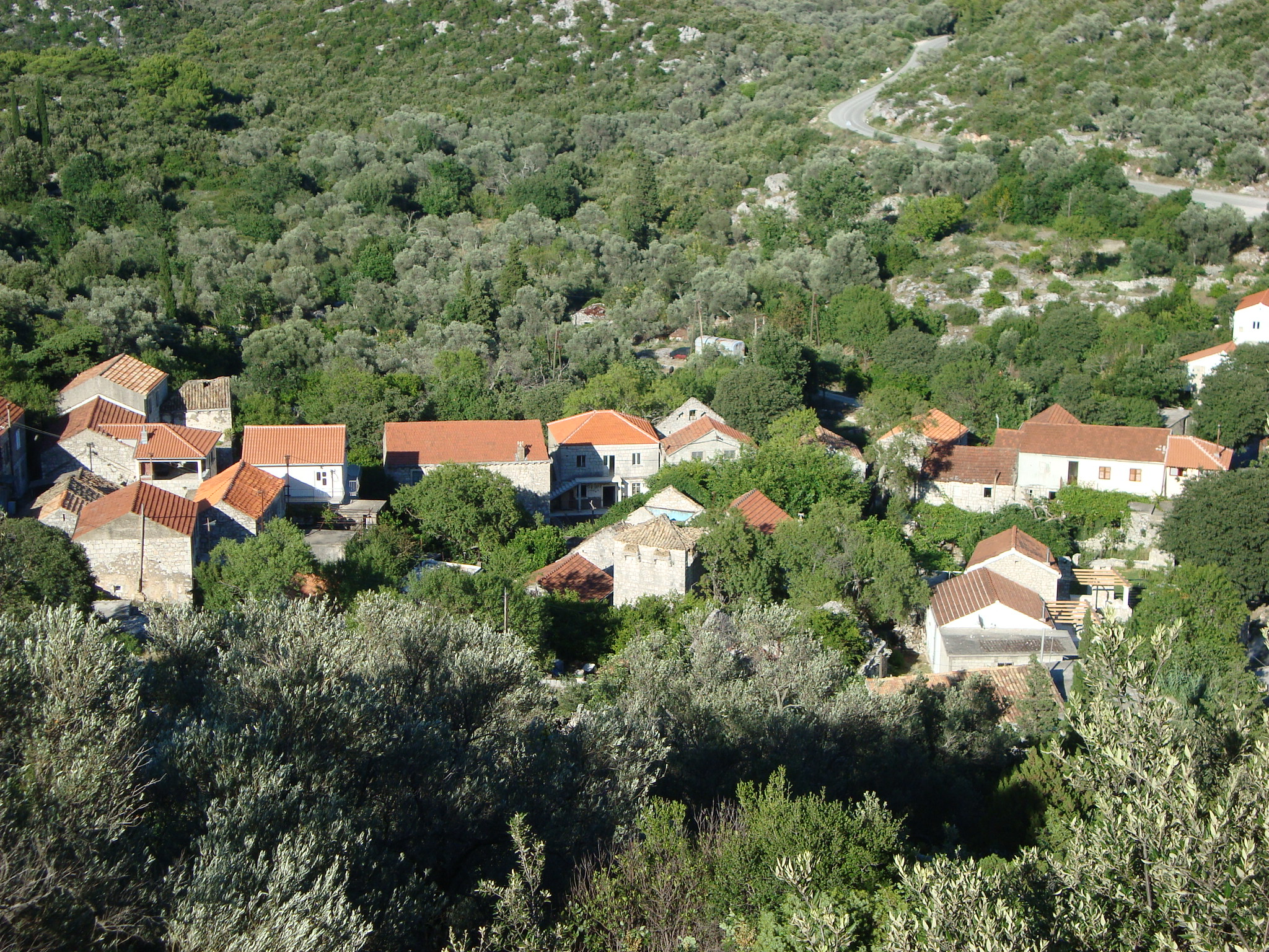 Korita, a village on the east side of the island of Mljet, Croatia